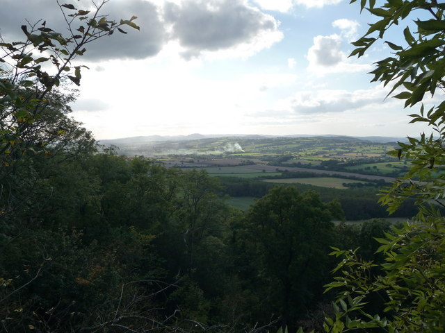 View from Wenlock Edge northwestwards Wenlock Edge provides just enough cleared viewpoints in summer. For views its best walked in winter or early spring.